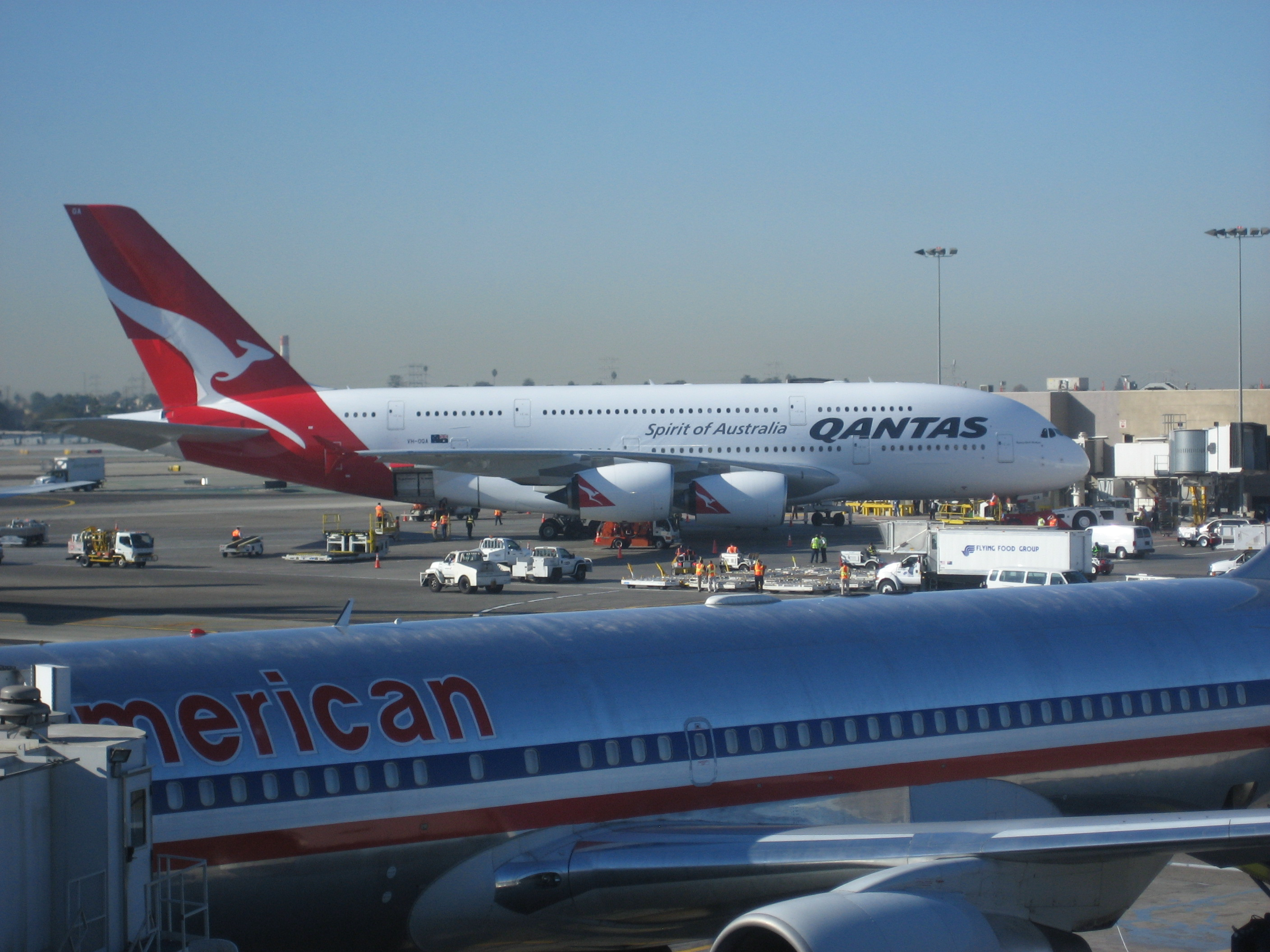 Qantas A380 preparing to depart LAX on it's first flight on the new LAX-SYD route October 24, 2008.